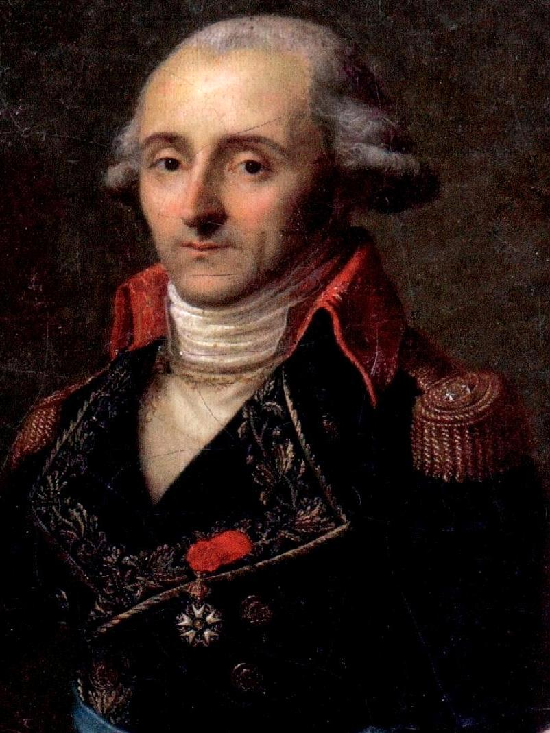 Photo portrait of General Meunier